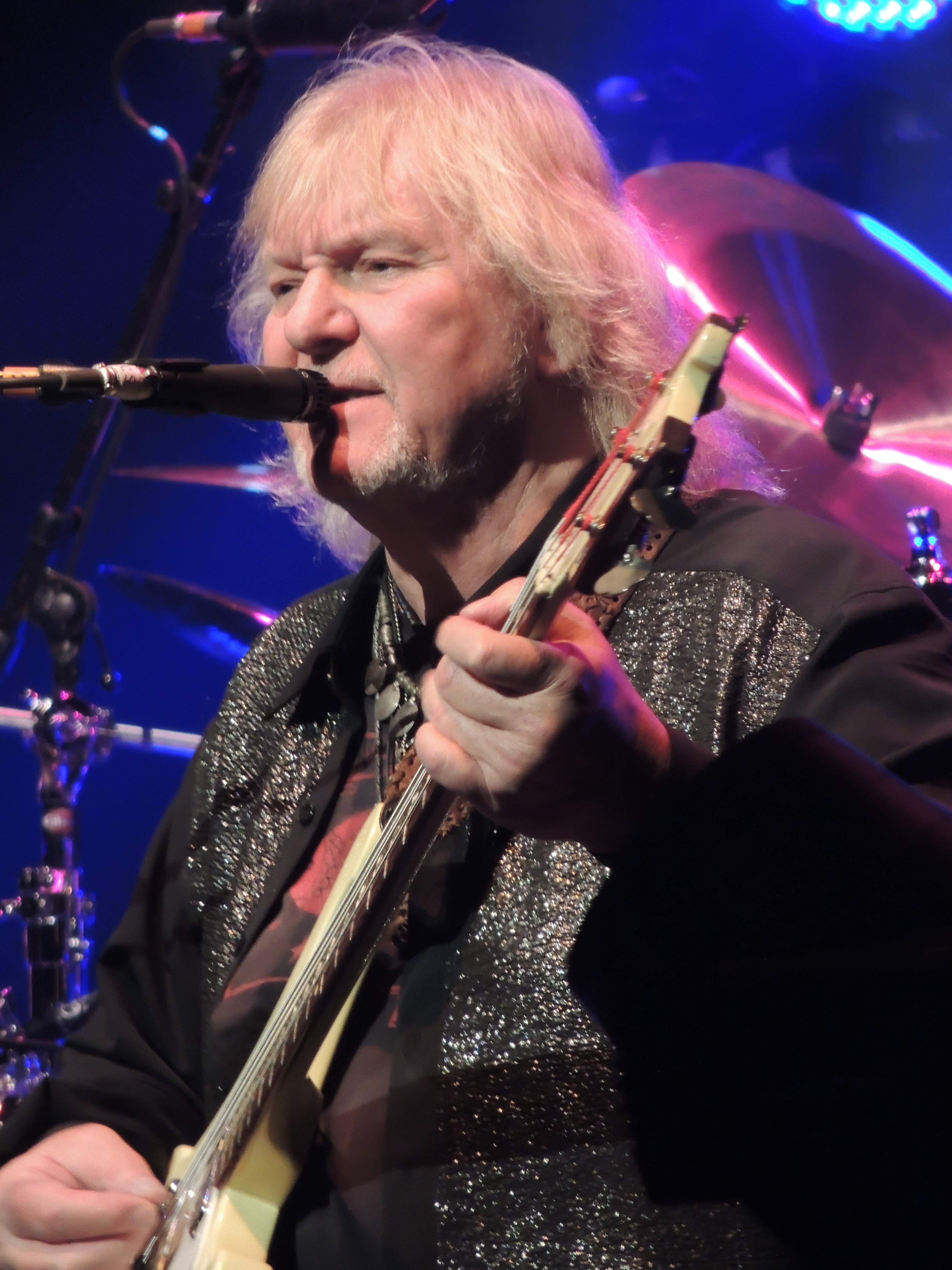 Chris Squire at the Beacon Theatre in April 2013.